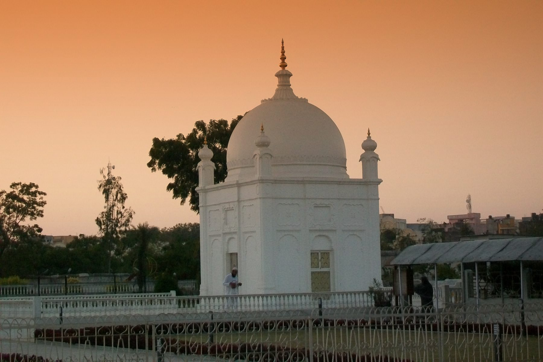 The mosque of Kaka Saheb situated in Pratapgarh, Rajasthan